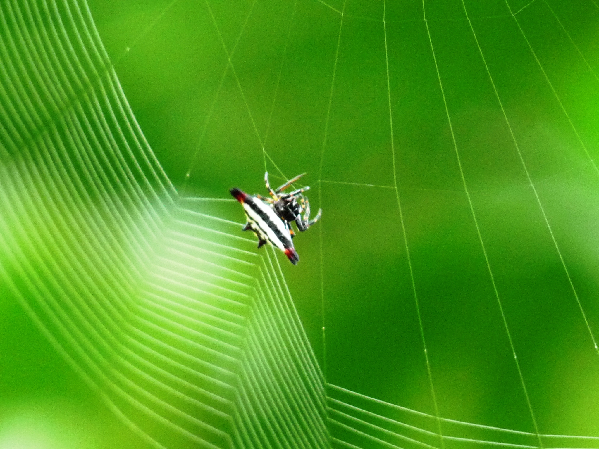 Spiny orb-weavers is a common name for Gasteracantha, a genus of spiders. They are also commonly called Spiny-backed orb-weavers, due to the prominent spines on their abdomen. These spiders can reach sizes of up to 30mm in diameter (measured from spike to spike). Although their shell is shaped like a crab shell with spikes, it is not to be confused with a crab spider. This is Gasteracantha geminata. Taken at Kadavoor, Kerala, India.